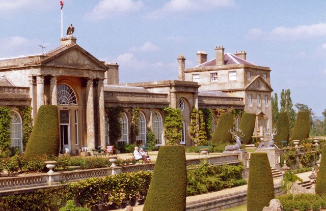 Bowood House Bowood House is the stately family home of the Marquis and Marchioness of Lansdowne. English landscape gardens designed by Lancelot "Capability" Brown. Building designed by Robert Adam in the 18th Century.